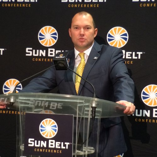 Tyson Summers, head coach of the Georgia Southern Eagles football team, at the 2016 Sun Belt Conference Media Day in the Mercedes-Benz Superdome in New Orleans.